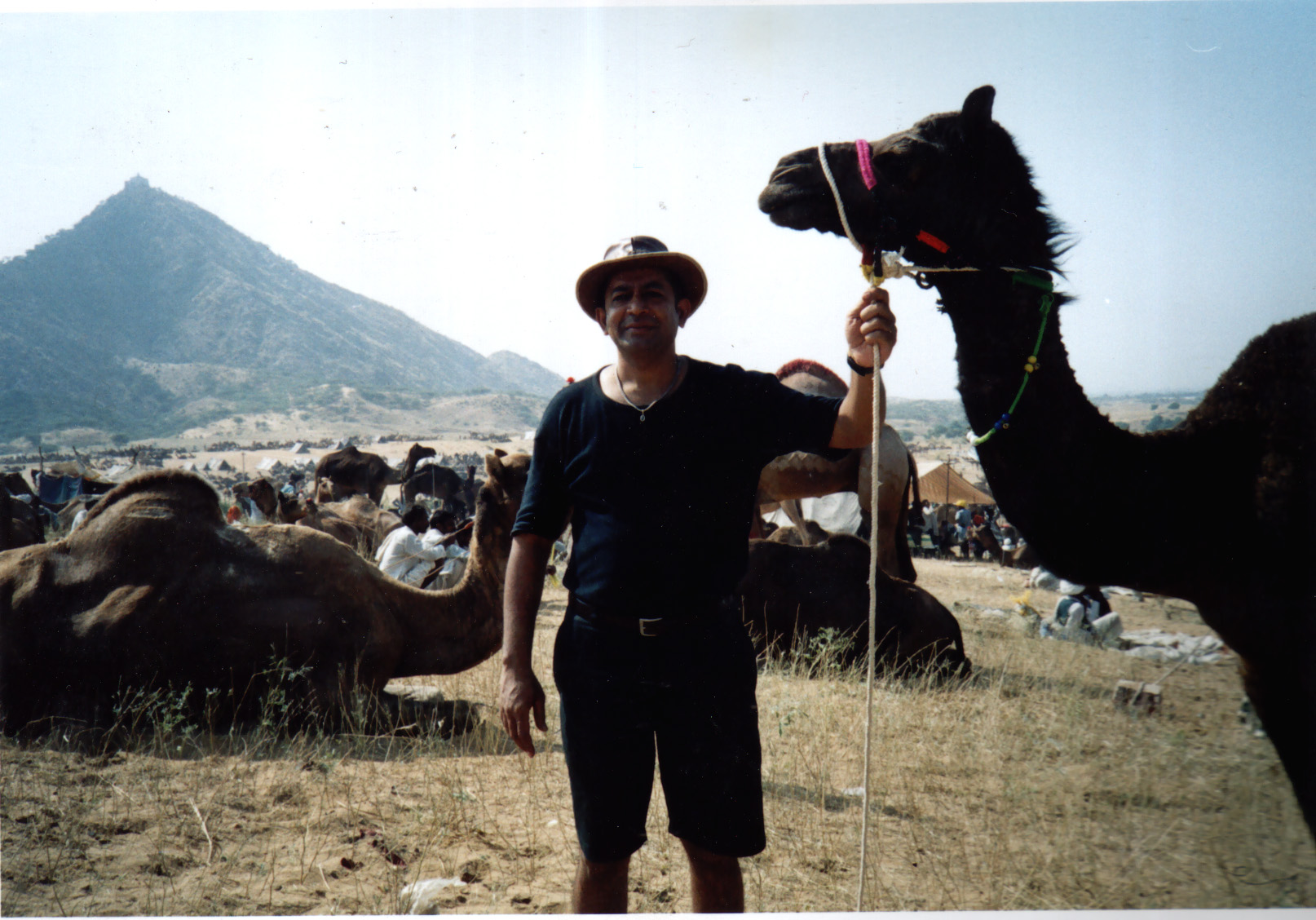 Self,Rudolph.A.Furtado at the Pushkar Fair in Rajasthan.